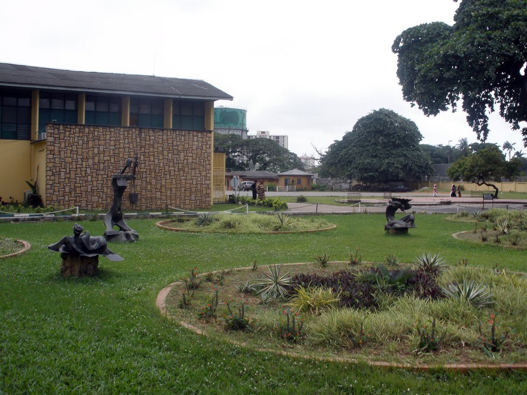 Garden in front of museum, Lagos, Nigeria